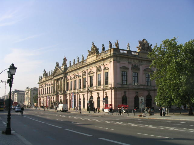 Description: Zeughaus Unter den Linden, Berlin. Source: self-made. I release it into the public domain.